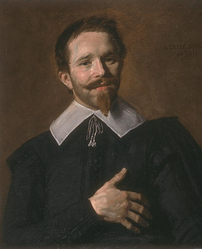 A man with his hand on his heart